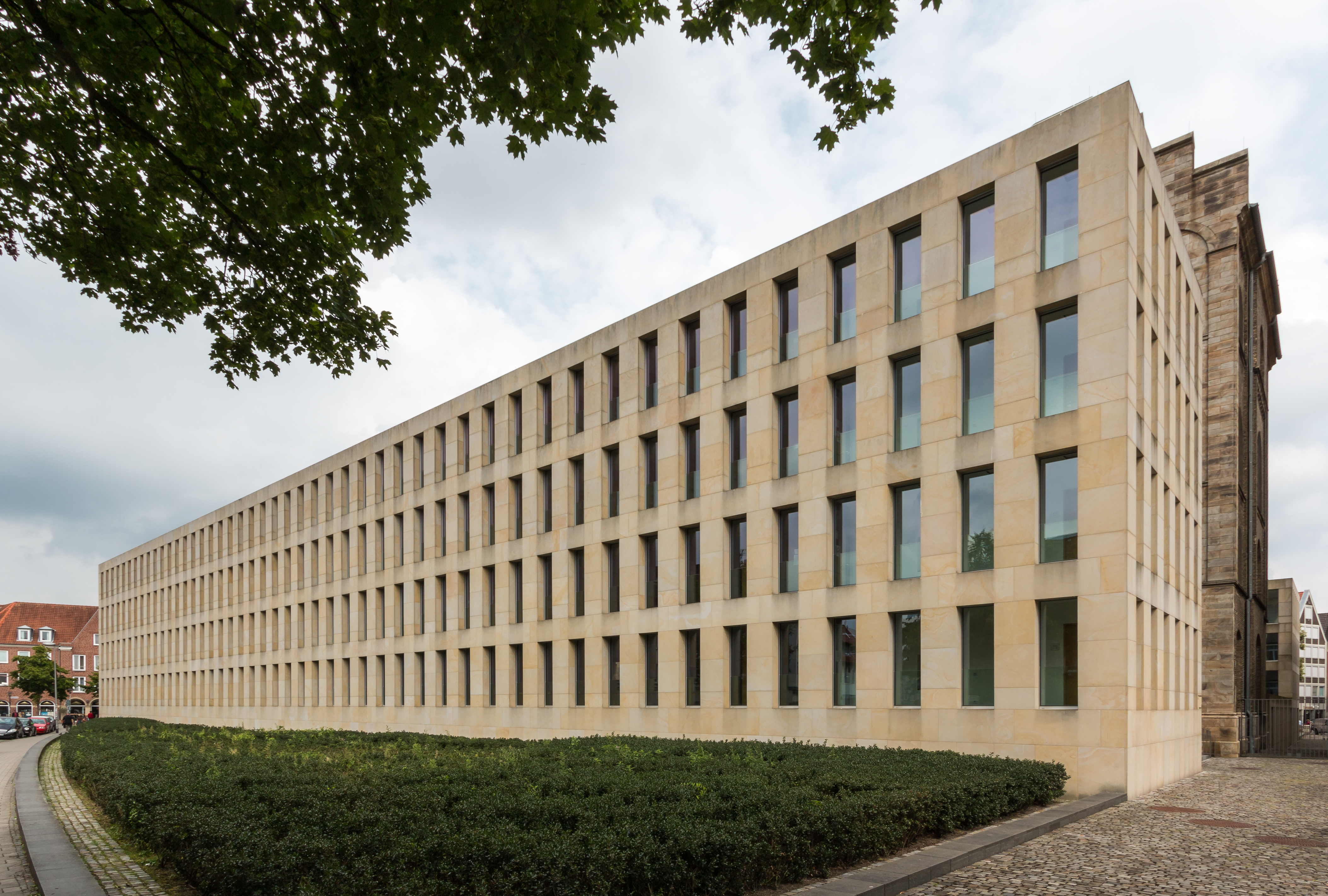 Diözesanbibliothek in Münster, North Rhine-Westphalia, Germany Building TitleDiözesanbibliothekArchitectMax DudlerDate2005